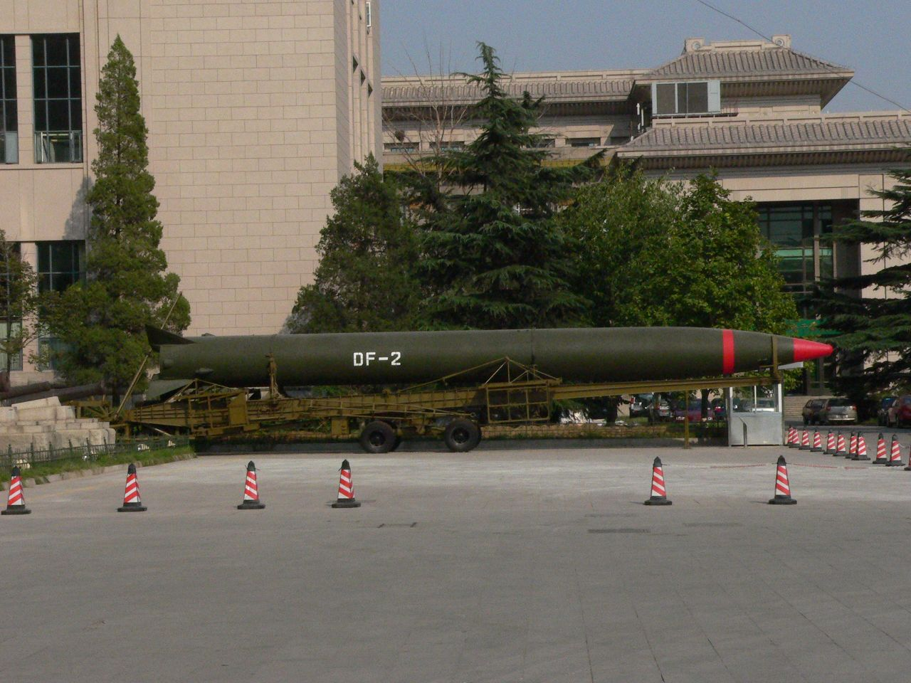 A chinese Dongfeng 2 (CSS-1) medium-range ballistic missile.